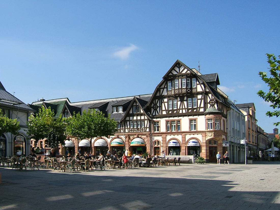 Buildings in Bad Homburg vor der Höhe, Germany